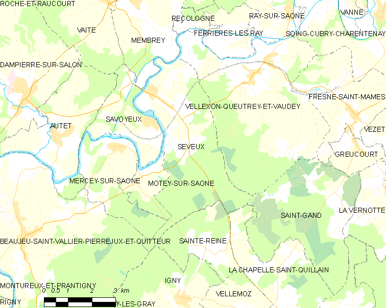 Map of French municipality